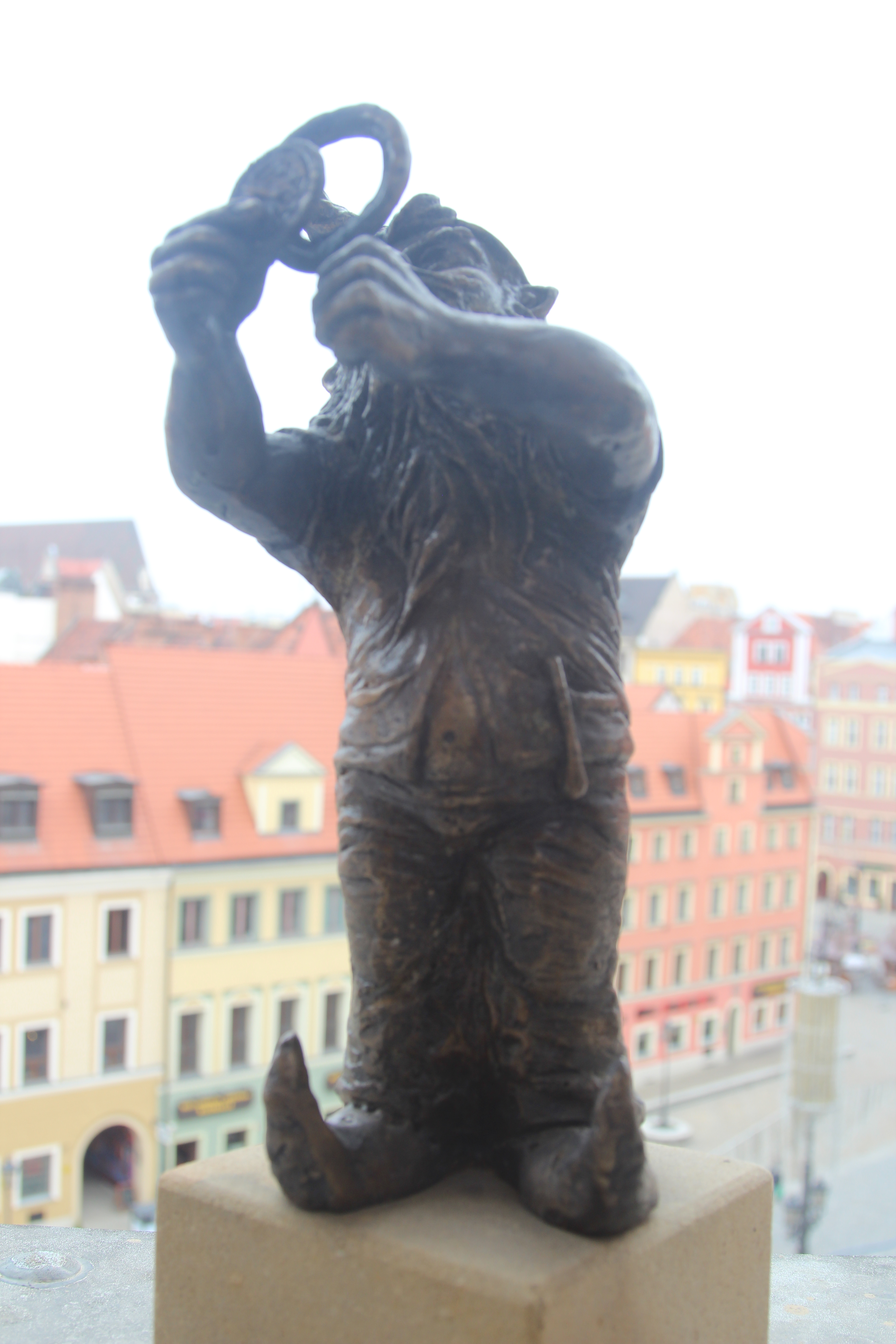 Collector (Kolekcjoner) dwarf from 4 floor of Phoenix Department Store (former Barasch Brothers' Department Store) on Rynek 31-32